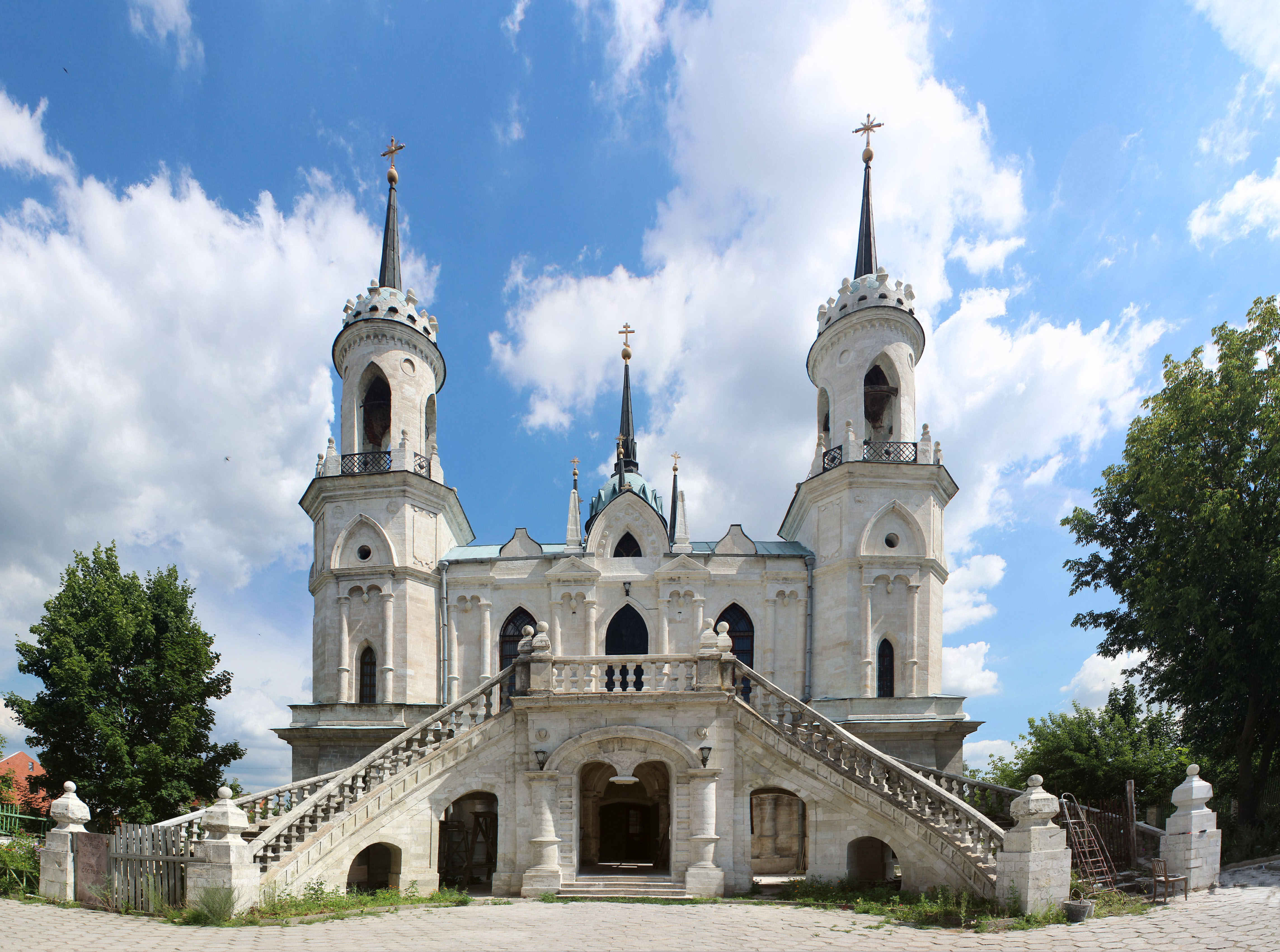 Church of the Theotokos of Vladimir (Bykovo)